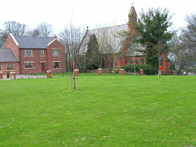 View northwest across part of the village green at Cornforth, County Durham, with Holy Trinity parish church on the right